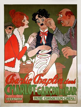 Poster to the 1914 Keystone Studios Charles Chaplin / Mabel Normand Caught in a Cabaret.